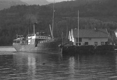 Norwegian steamship SS Saude, built in 1897